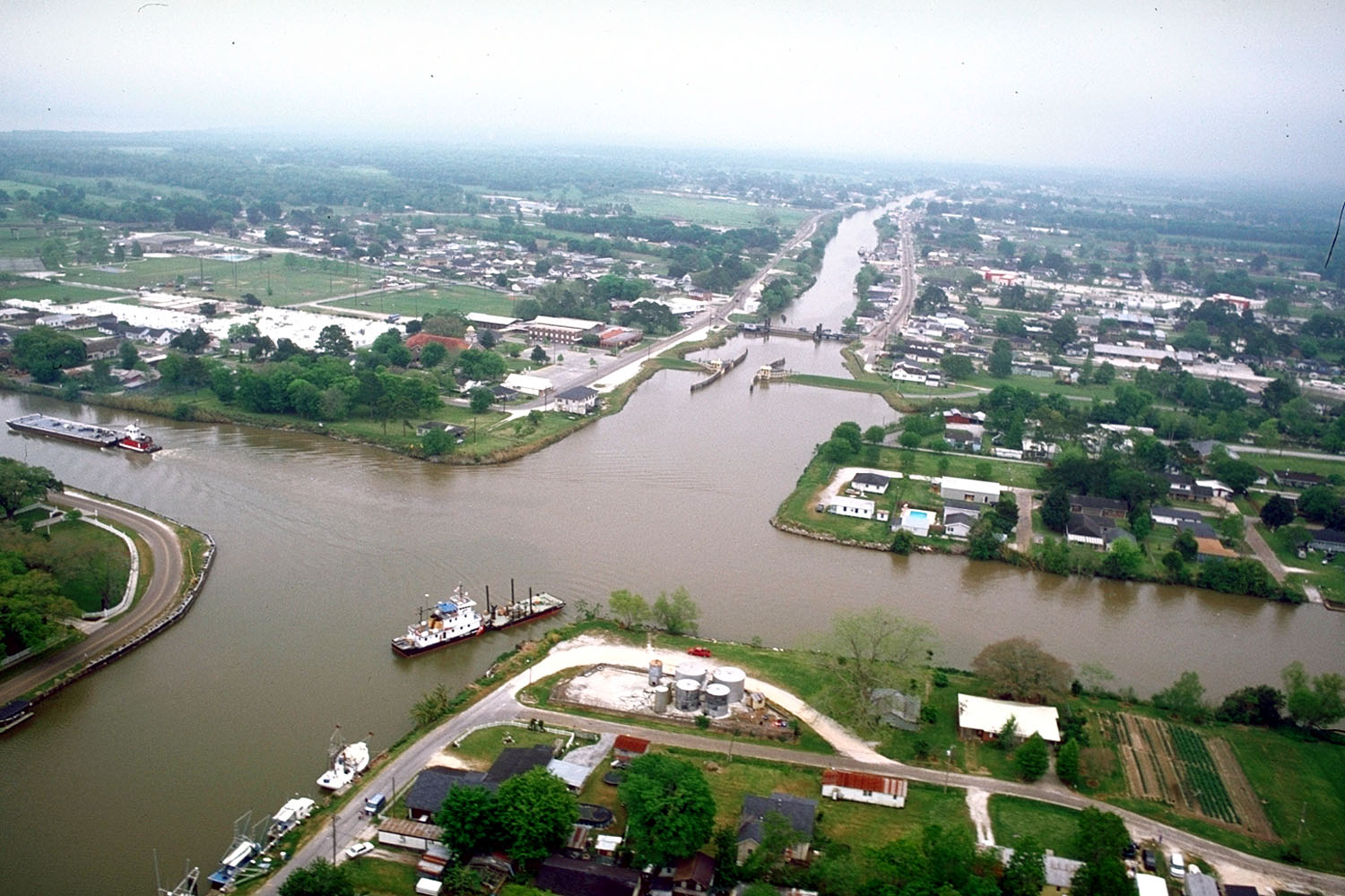 Aerial view of the intersection of Bayou Lafourche and the Gulf Intracoastal Waterway at Larose, Louisiana, USA. The waterway runs left–right across the photograph and the bayou runs off into the distance at the top. The U.S. Army Corps of Engineers has installed a floodgate on the bayou, visible at center.